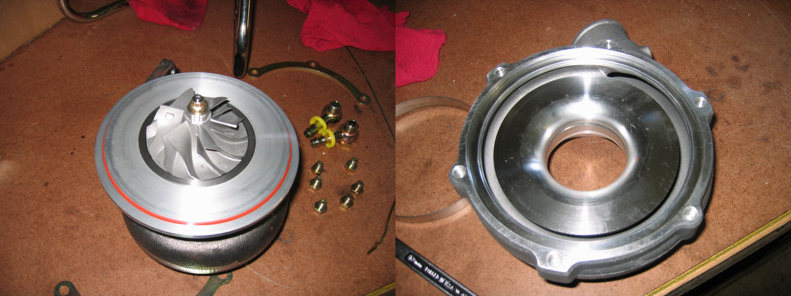 Compressor side of a Garrett GT30 turbocharger with the compressor cover removed.